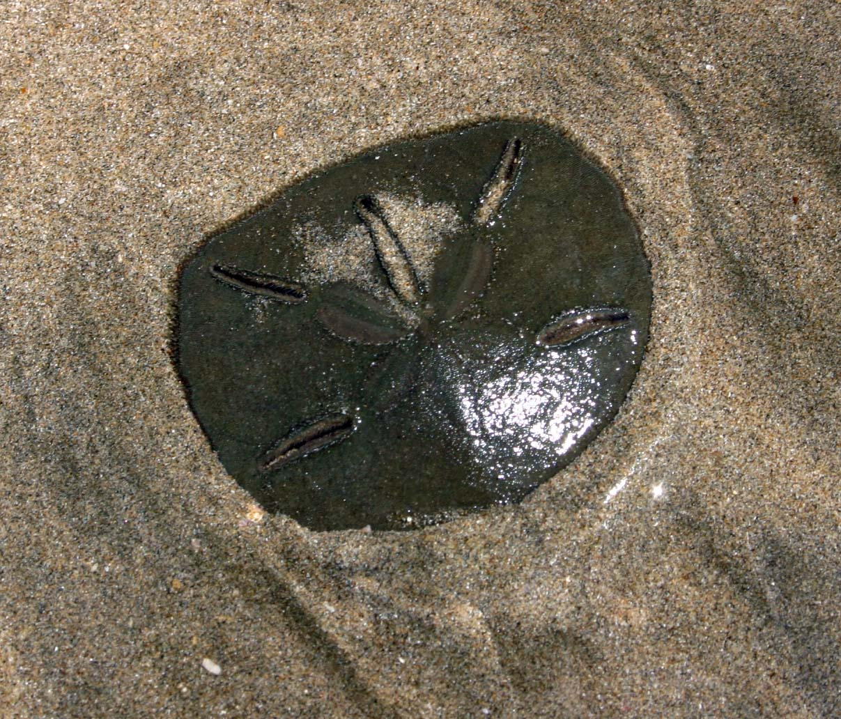 A live Sand dollar, species Mellita longifissa), at low tide on the beach at Playa Grande on the Pacific coast of Costa Rica 23. February 2005 Sand dollars are flat sea urchins. When you find sand dollars on a beach, the white ones are the old empty shells or tests, having died, lost their covering of velvety spines and having been bleached white by the sun. The live ones are dark and completely covered in very small spines